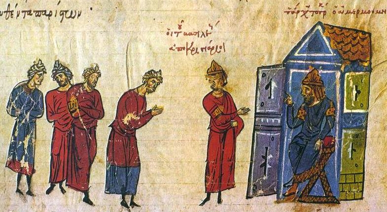 The tourmarches Basil sent as ambassador (apokrisiarios) to the Caliph (Amermoumnes) Al-Mu'tasim in 838